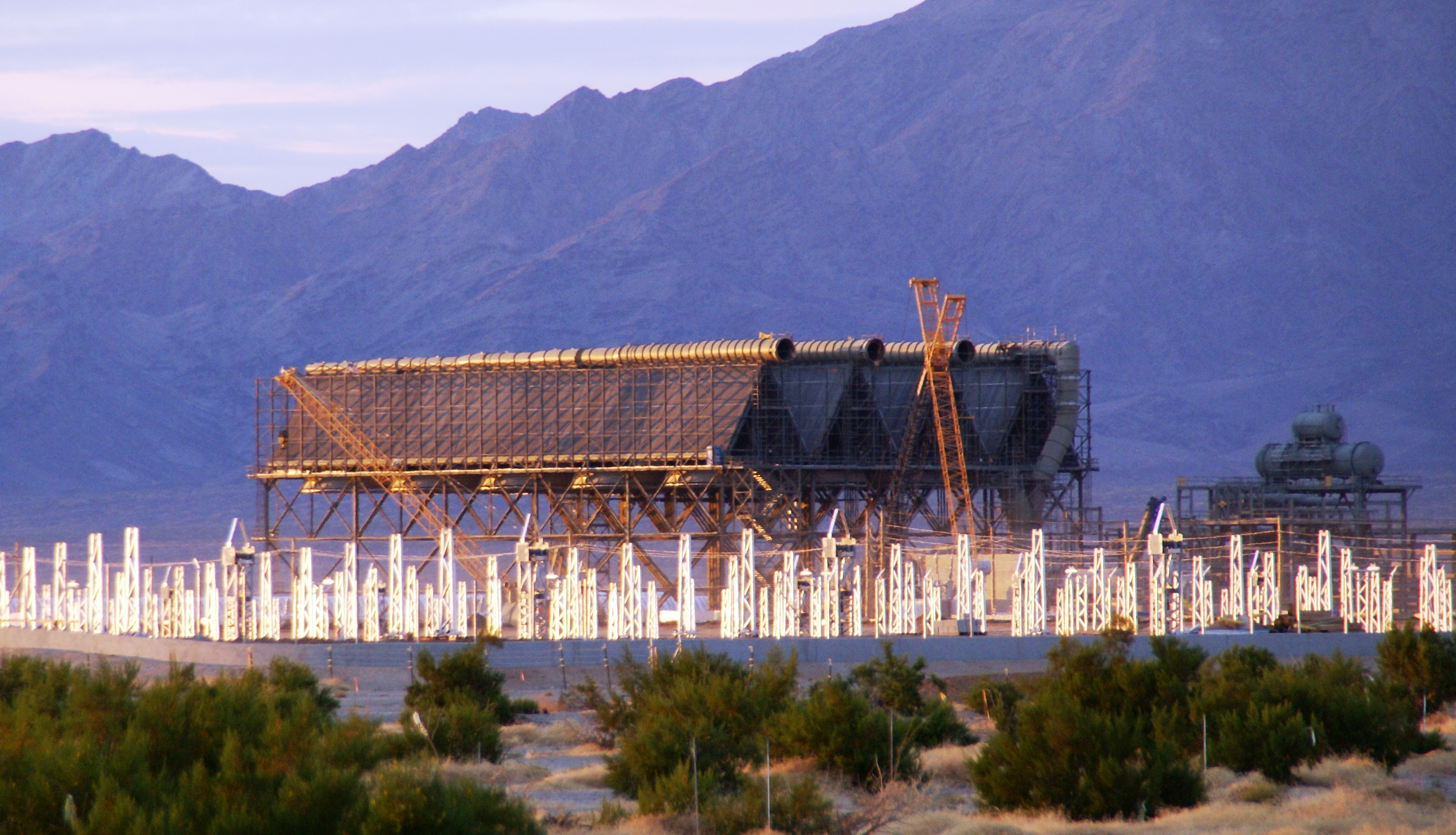 Genesis Solar Energy Project - Blythe,CA